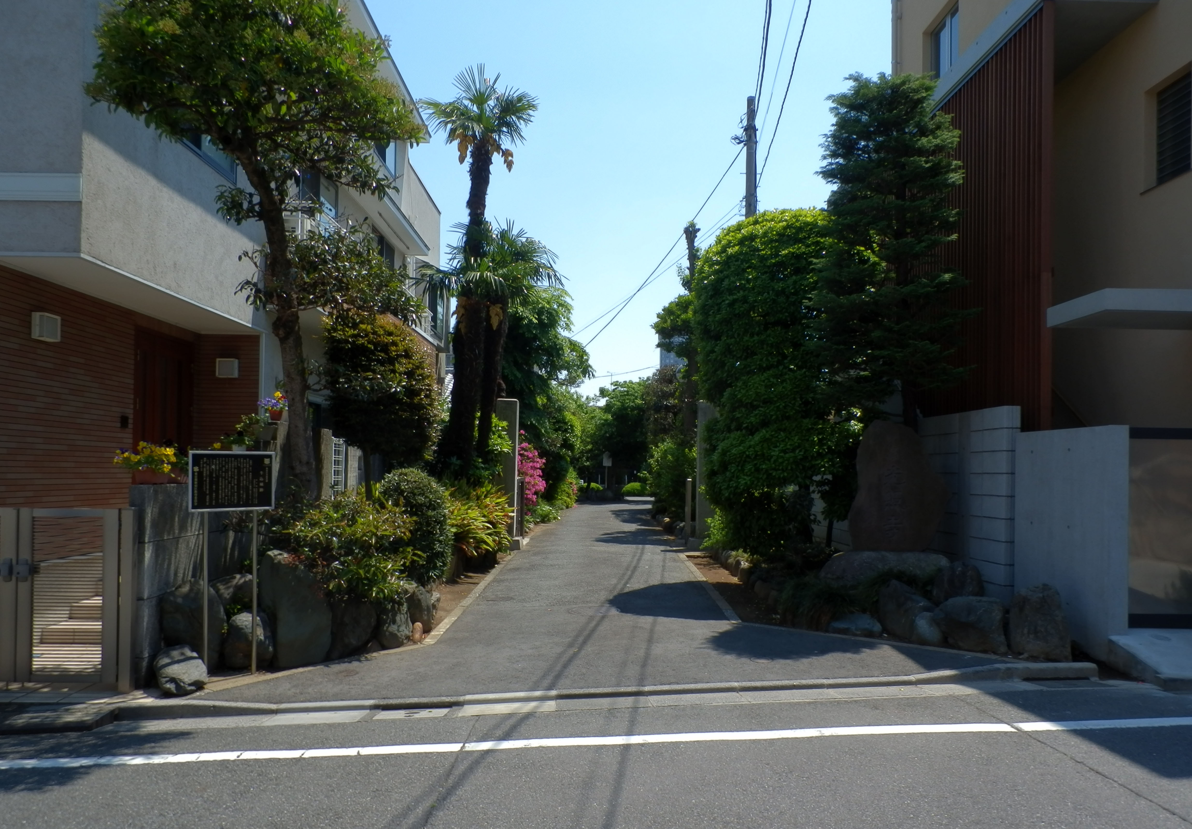 Koshoji (Buddhist temple in Kagurazaka, Tokyo, Japan)